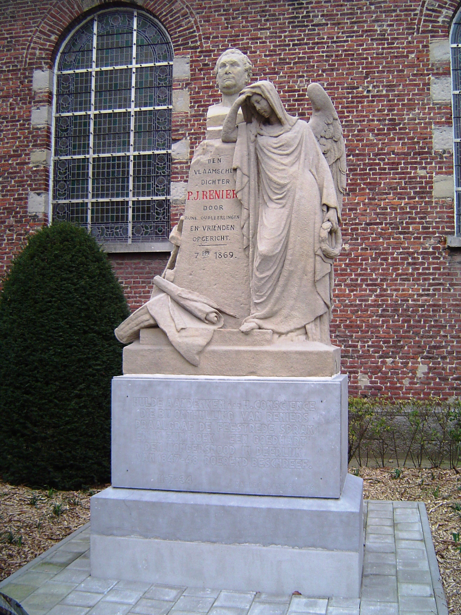 Monument for Pieter Jan Renier next to the Sint-Columba church.